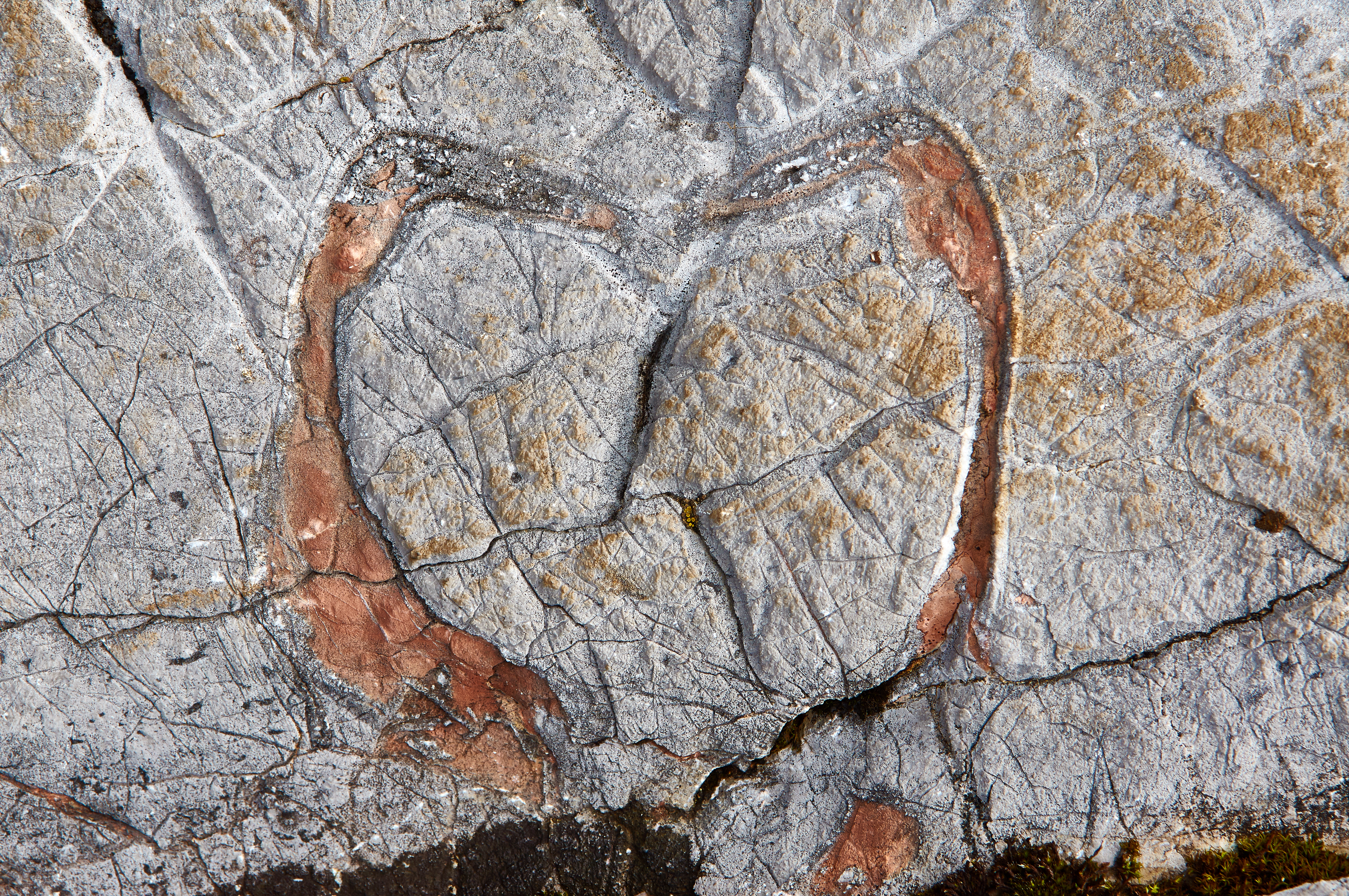 Fossile Bivalvia (Megalodont) near the path from Funtensee to the "Ingolstädter Haus" in Steinernes Meer, Berchtesgaden Alps, Bavaria, Germany. Berchtesgaden National Park.